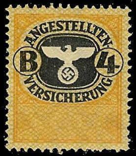 Third Reich 4 RM stamp of Insurance for salaried employees (Angestelltenversicherung), 1937.